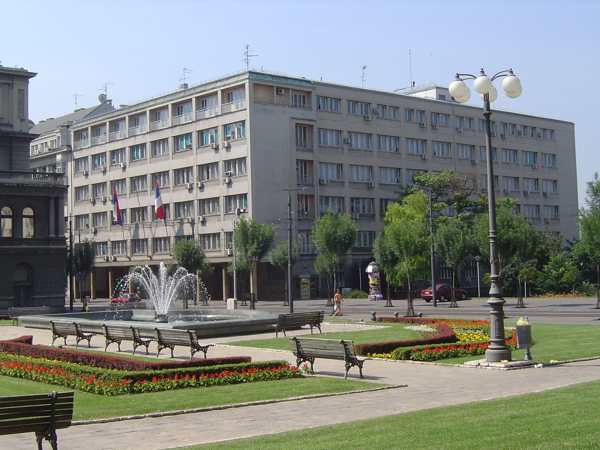 National Assembly of Serbia